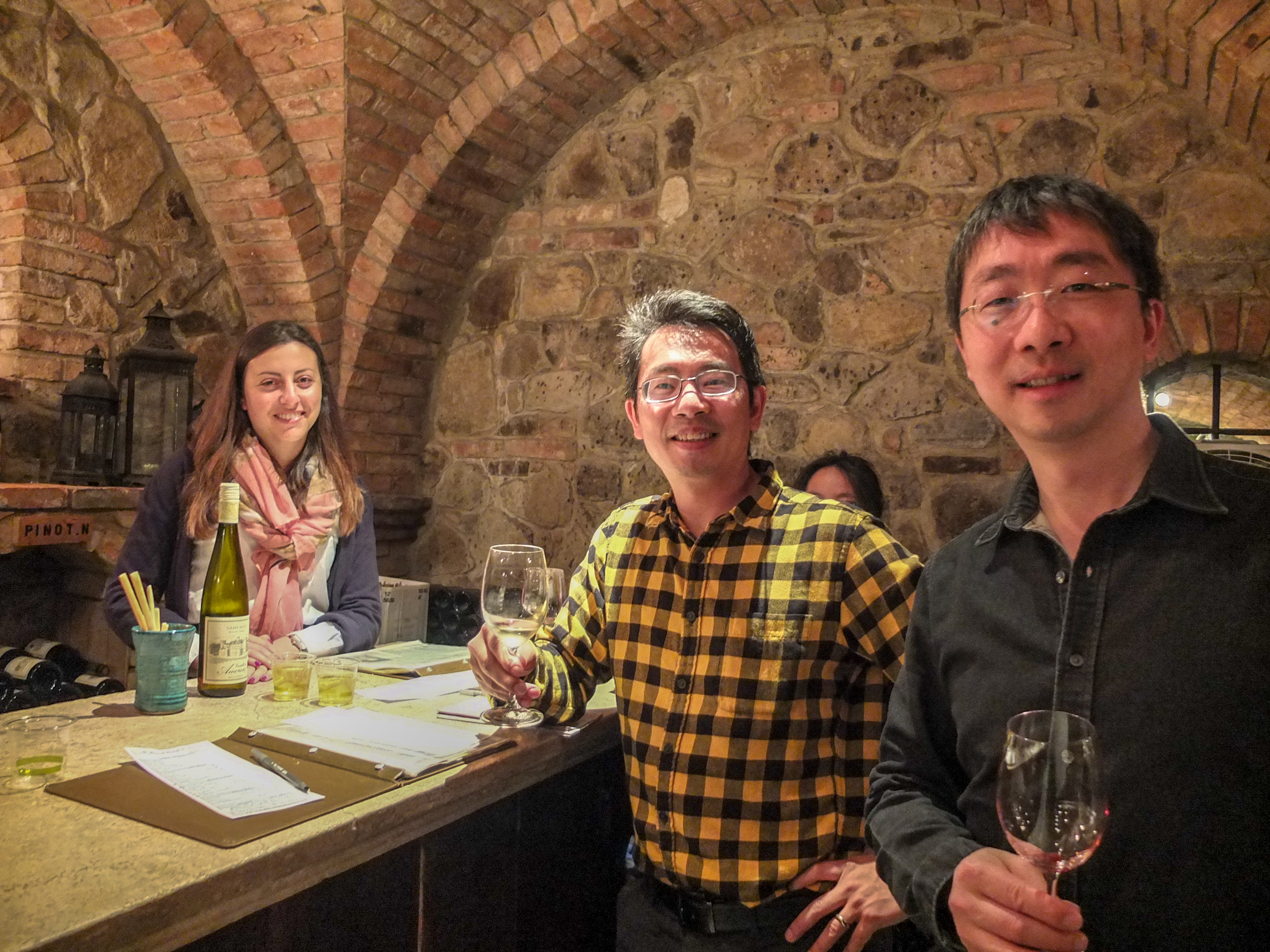 Wine tasting at Castello di Amorosa, Napa Valley